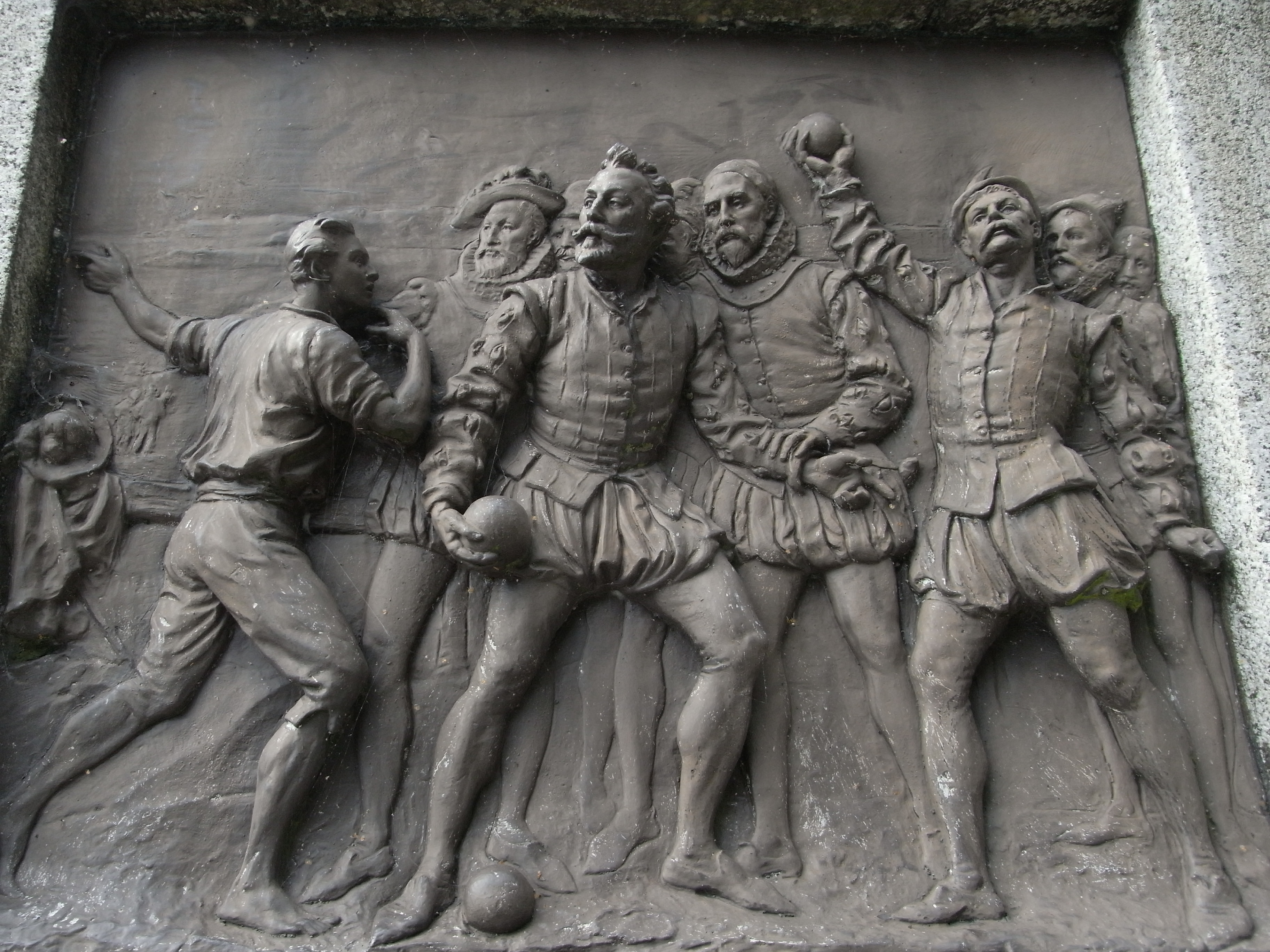 Sir Francis Drake whilst playing bowls on Plymouth Hoe is informed of the approaching Spanish Armada. One of 4 bronze relief plaques on the base of the Drake statue in Tavistock, Devon. By Joseph Boehm(d.1890), donated by Hastings Russell, 9th Duke of Bedford(d.1891)